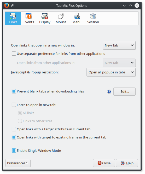 Screenshot of Tab Mix Plus options.